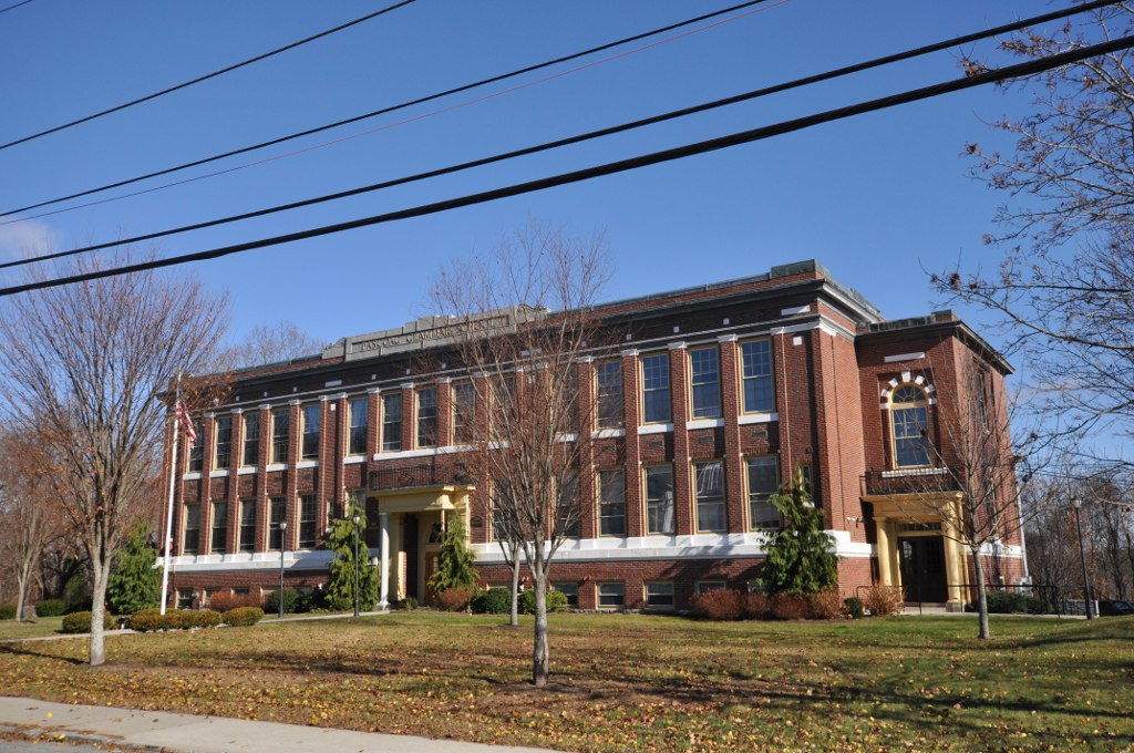 The former Pascoag Grammar School building, in the Pascoag section of Burrillville, Rhode Island.